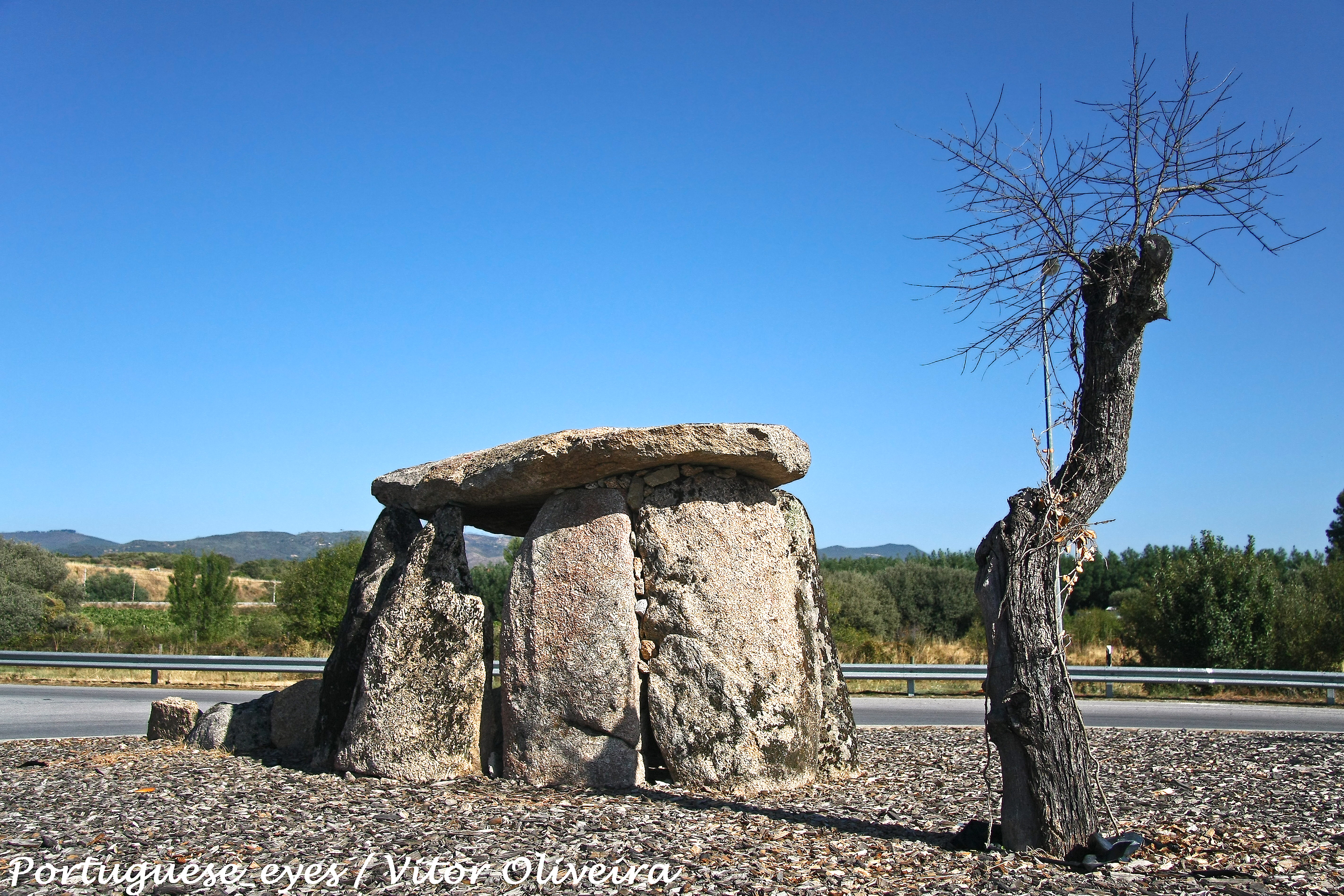 See where this picture was taken. [?]